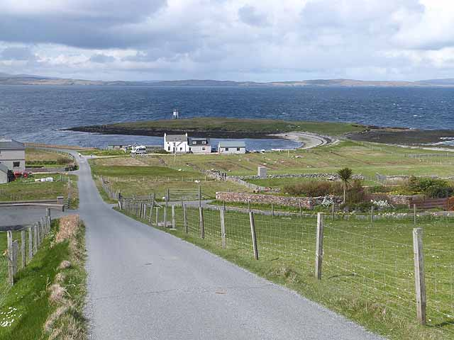 Suther Ness